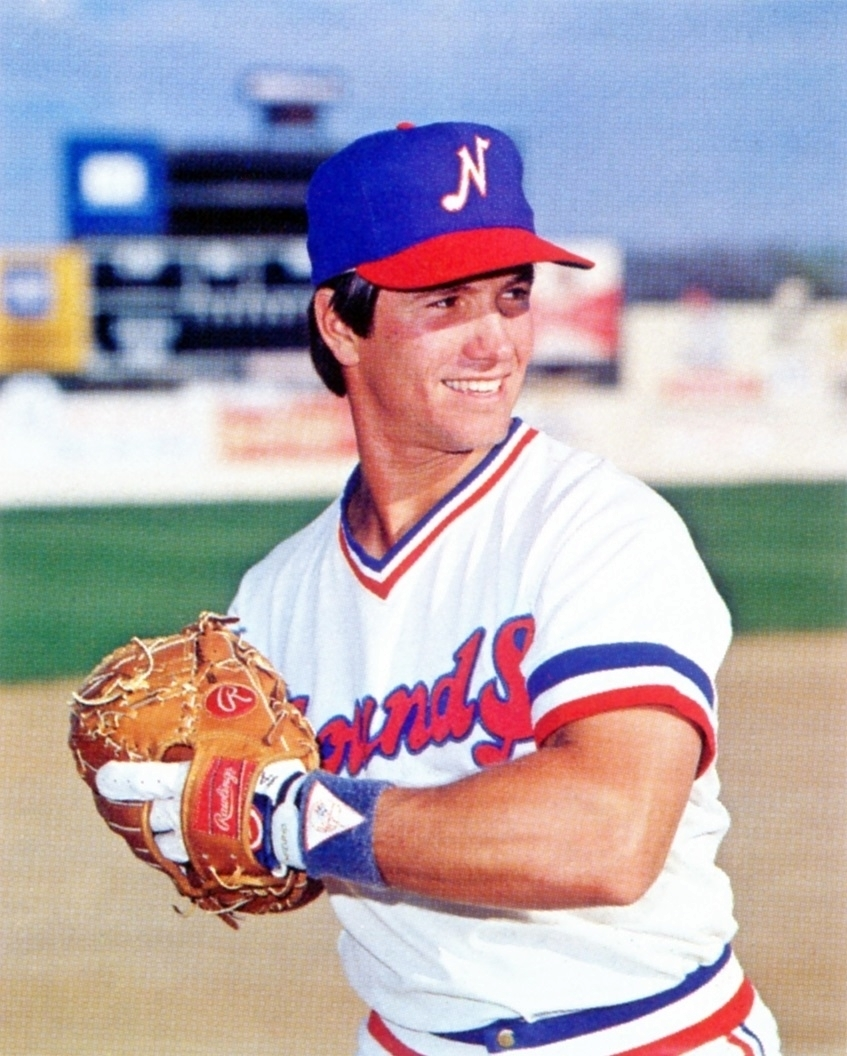 Third baseman Brian Dayett of the 1981 Nashville Sounds Minor League Baseball team of the Southern League